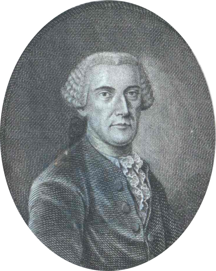 Johann Siegmund Valentin Popowitsch (1705 - 1774), Austrian/Slovenian linguist and naturalist, one of the pioneers of Austrian German.